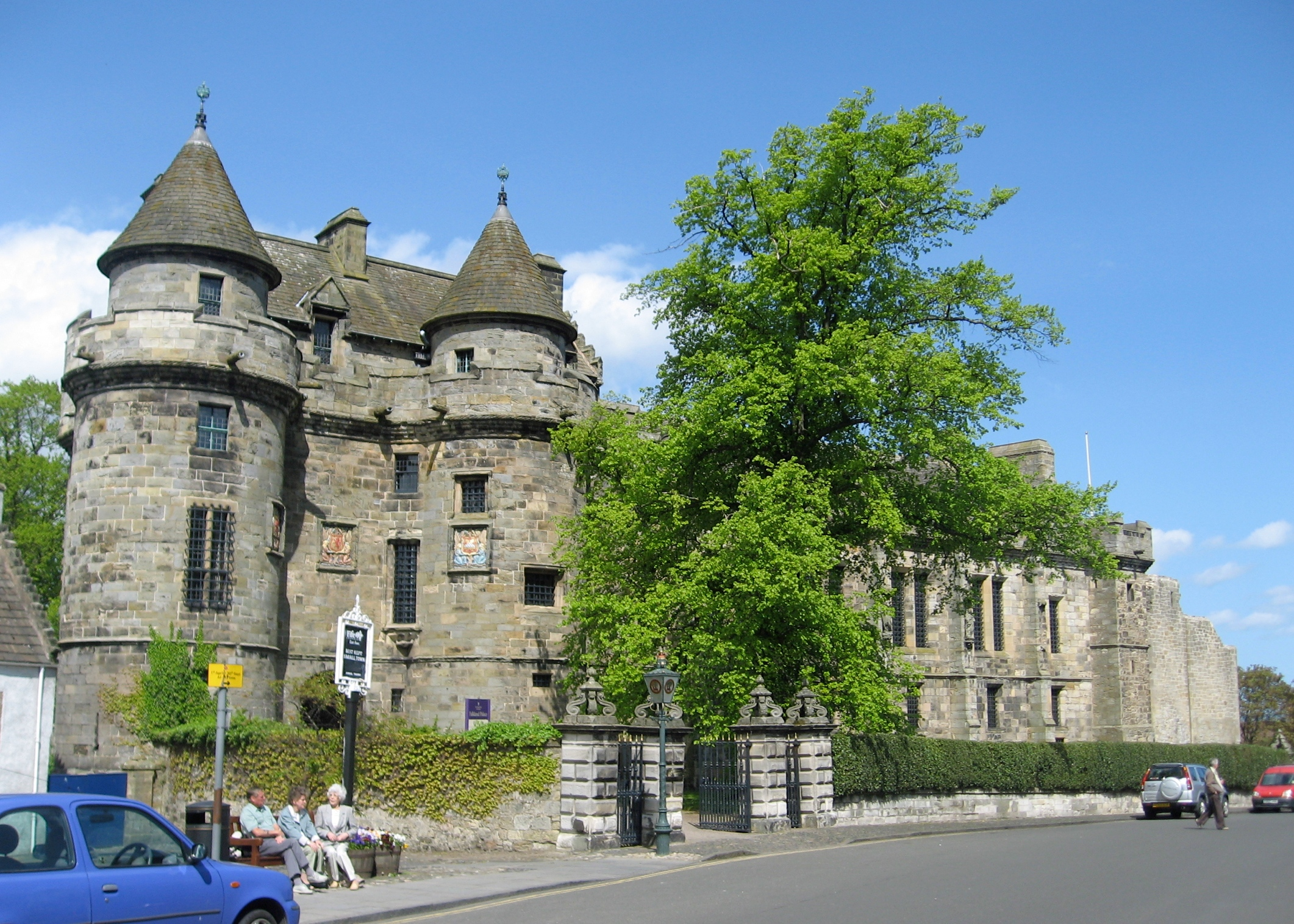 Maintained by the National Trust for Scotland.